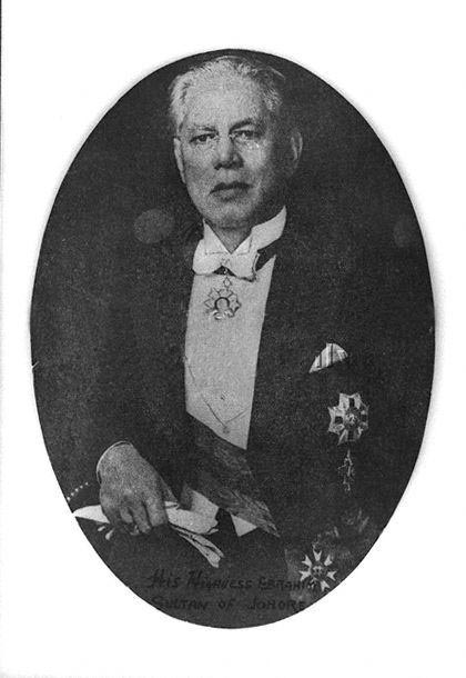 Sultan Ibrahim in a Western suit during his 60s.